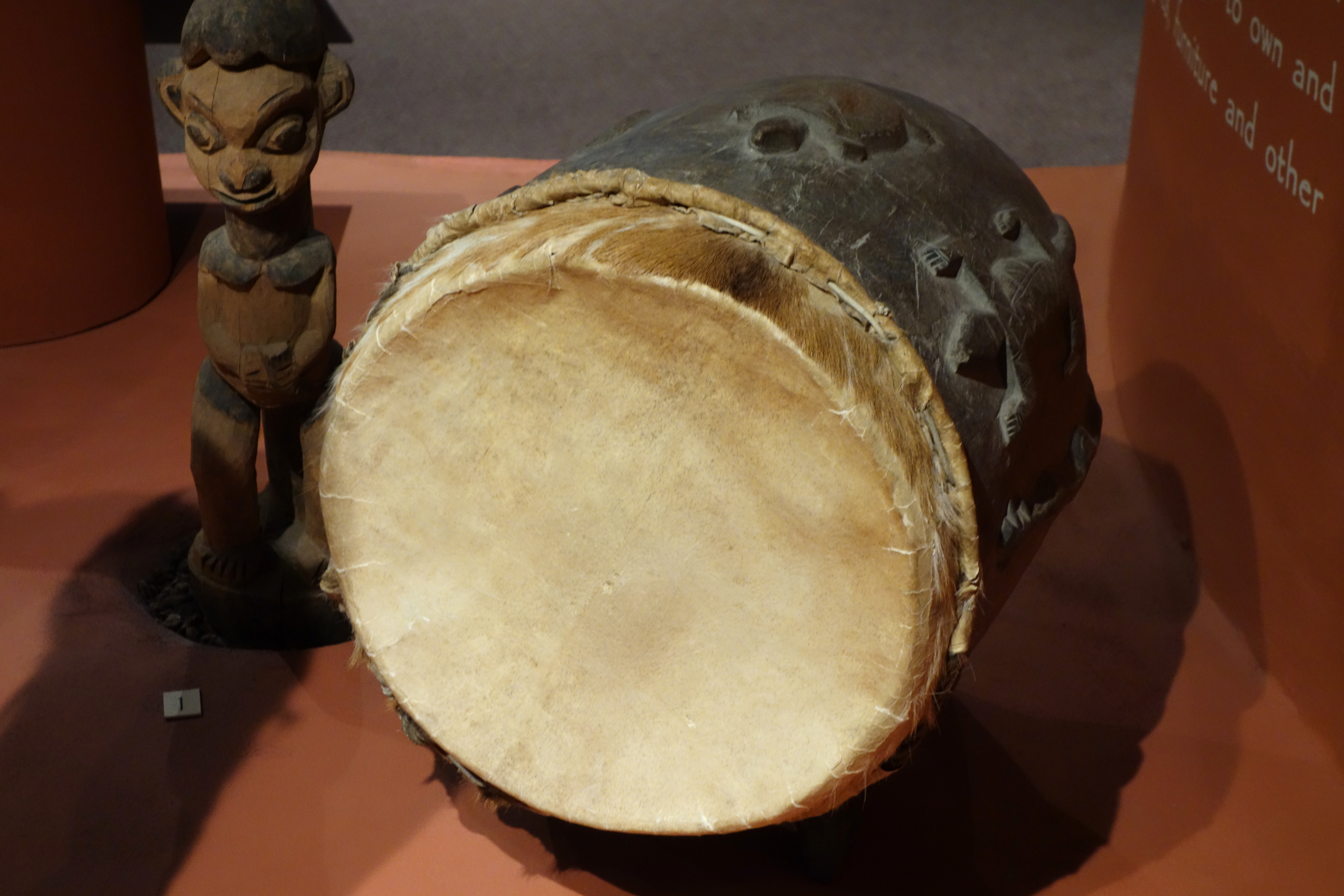 Exhibit in the Glenbow Museum, 130 9th Ave S.E., Calgary, Alberta, Canada. This artwork is old enough so that it is in the public domain.